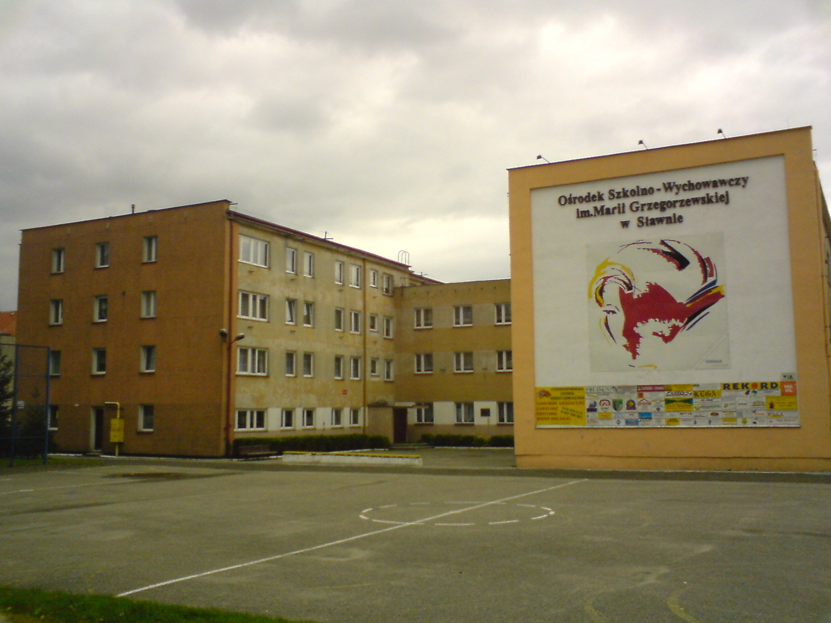 Educative Center for deaf Children and Youth